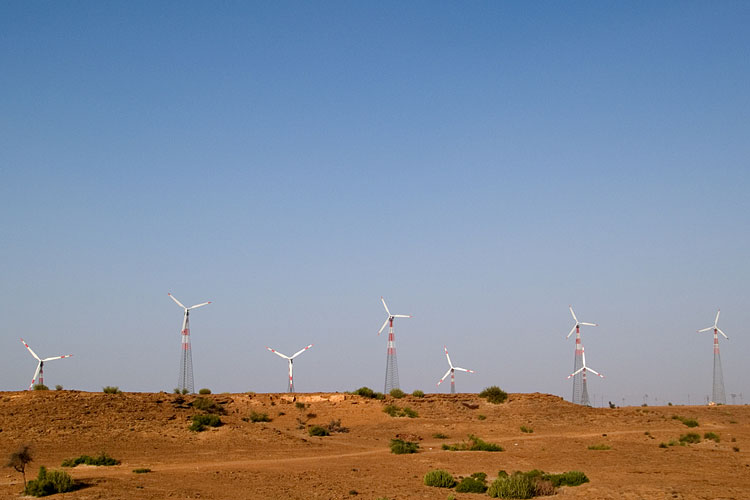 wind turbines in the desert Thar near Jaisalmer/Rajasthan/India own photo, may 18, 2005 photo: nomo/michael hoefner